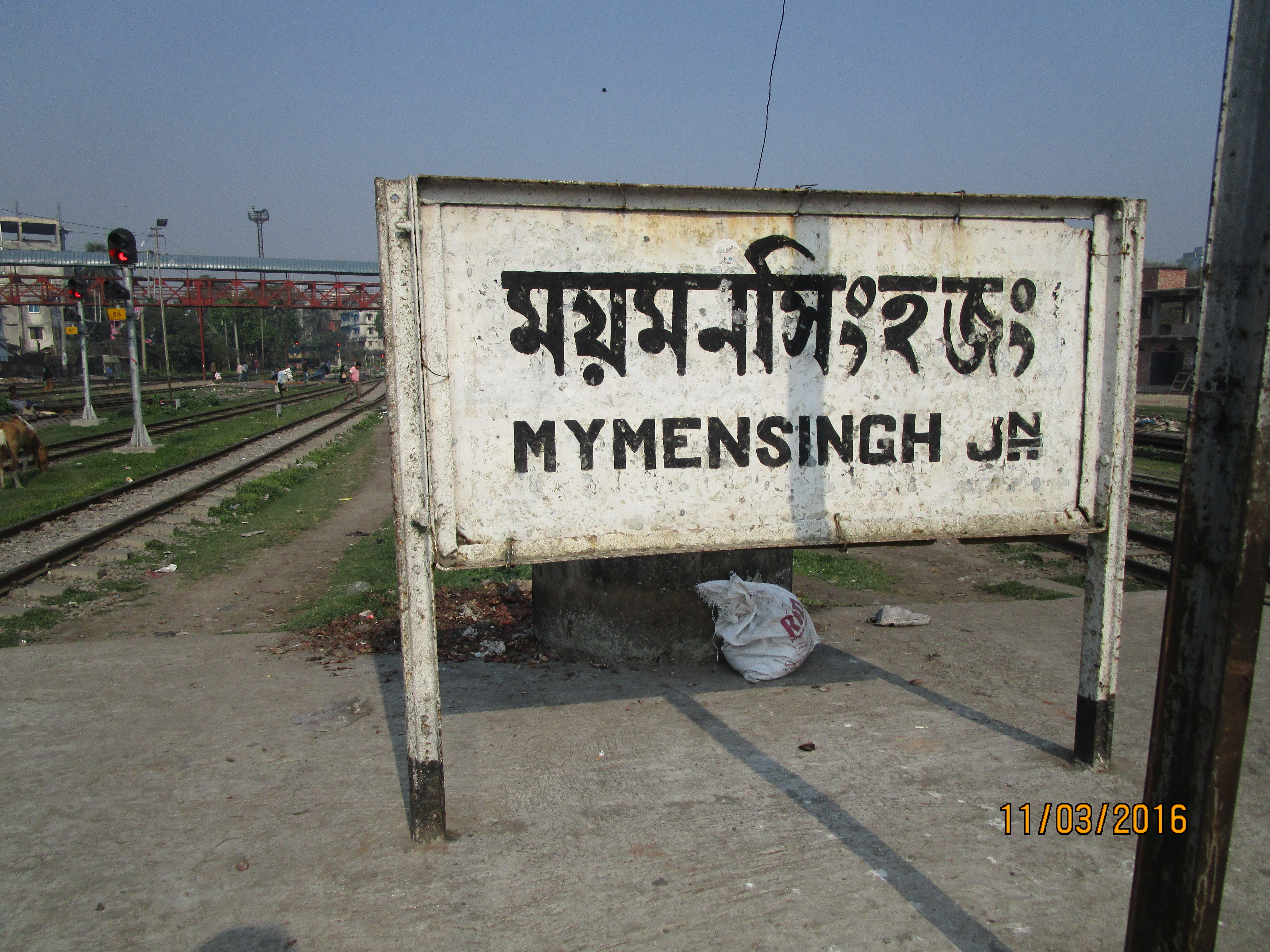 Mymensingh railway station nameplate